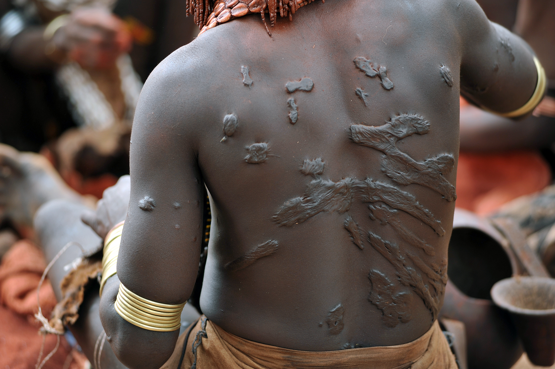 People and places in the Omo Valley, Ethiopia.